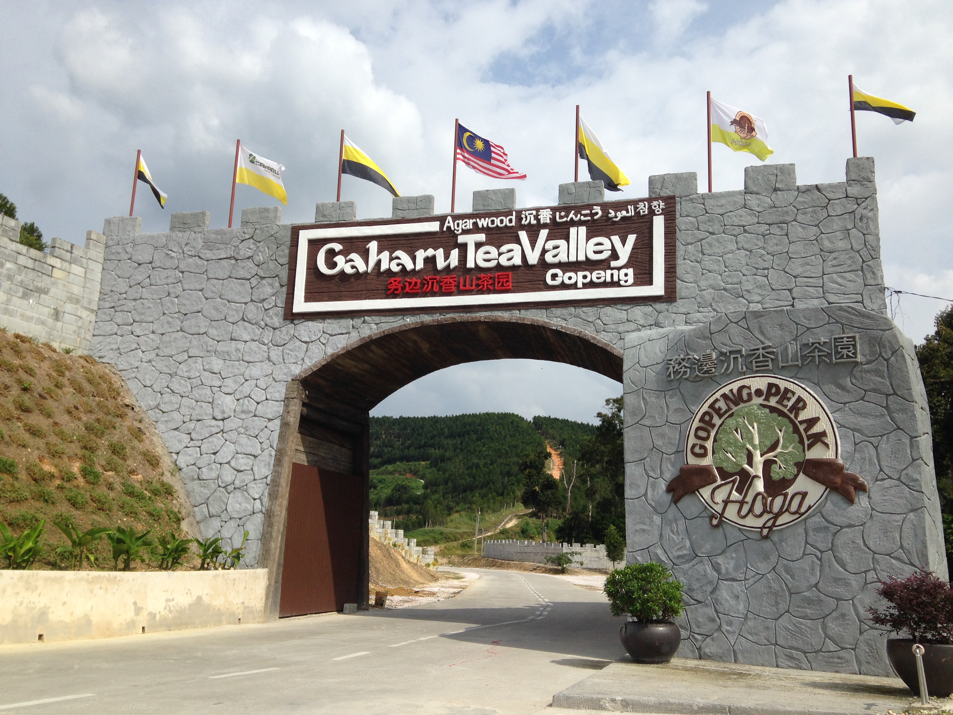 This 3metre high iconic wall is commonly known by locals as the Great Wall of Gopeng is the entrance to Gaharu Tea Valley Gopeng. This wall is also a tourist attraction as one can take pictures atop this Wall.